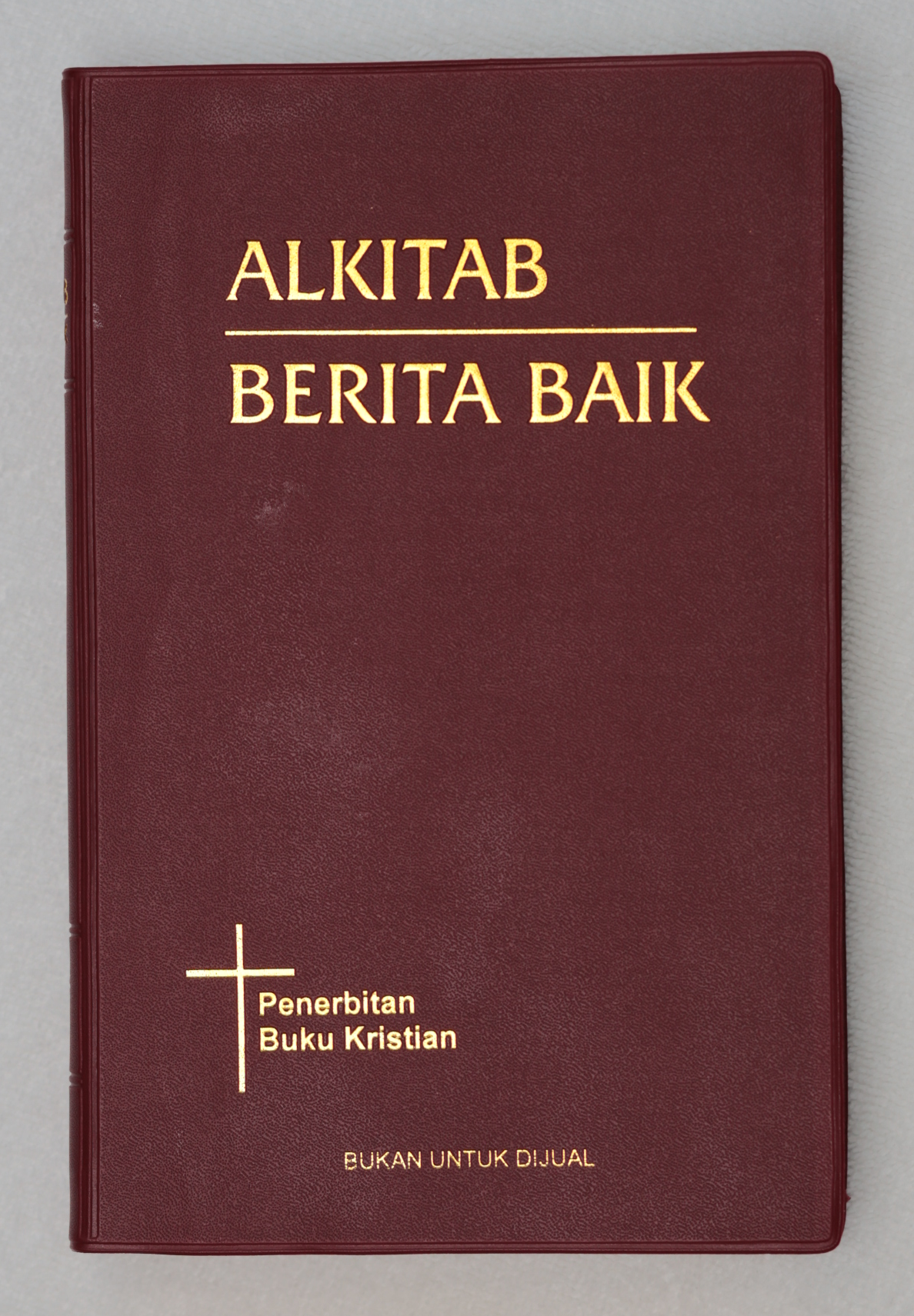 Al-Kitab, the bible in Bahasa Melaysia.